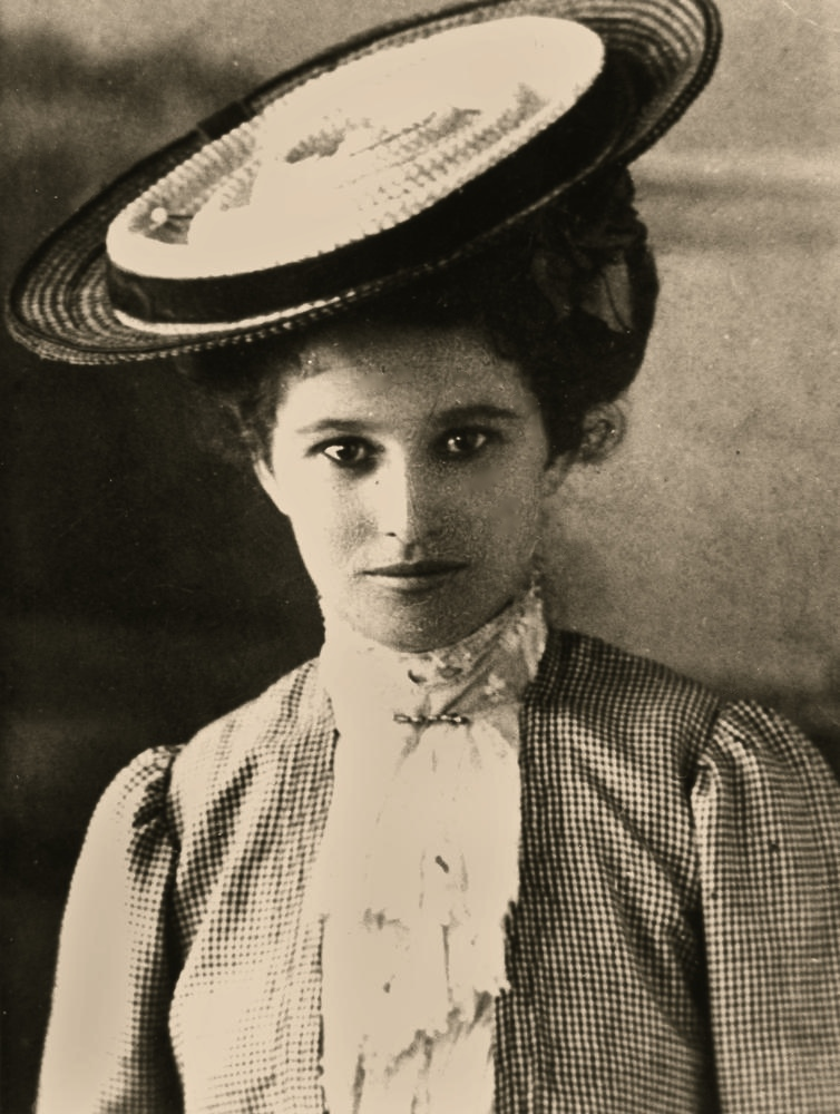 Head and shoulders portrait of a young woman, 1900-1910 Young woman photographed wearing an unusual, wide-brimmed, straw hat on top of her hair which is piled high on her head. Her outfit consists of a gingham jacket with slightly puffed sleeves, worn over a blouse with a jabot (frill of lace) pinned at the neck with a small brooch. Photograph taken at Rodway Studio, Fortitude Valley, Brisbane.